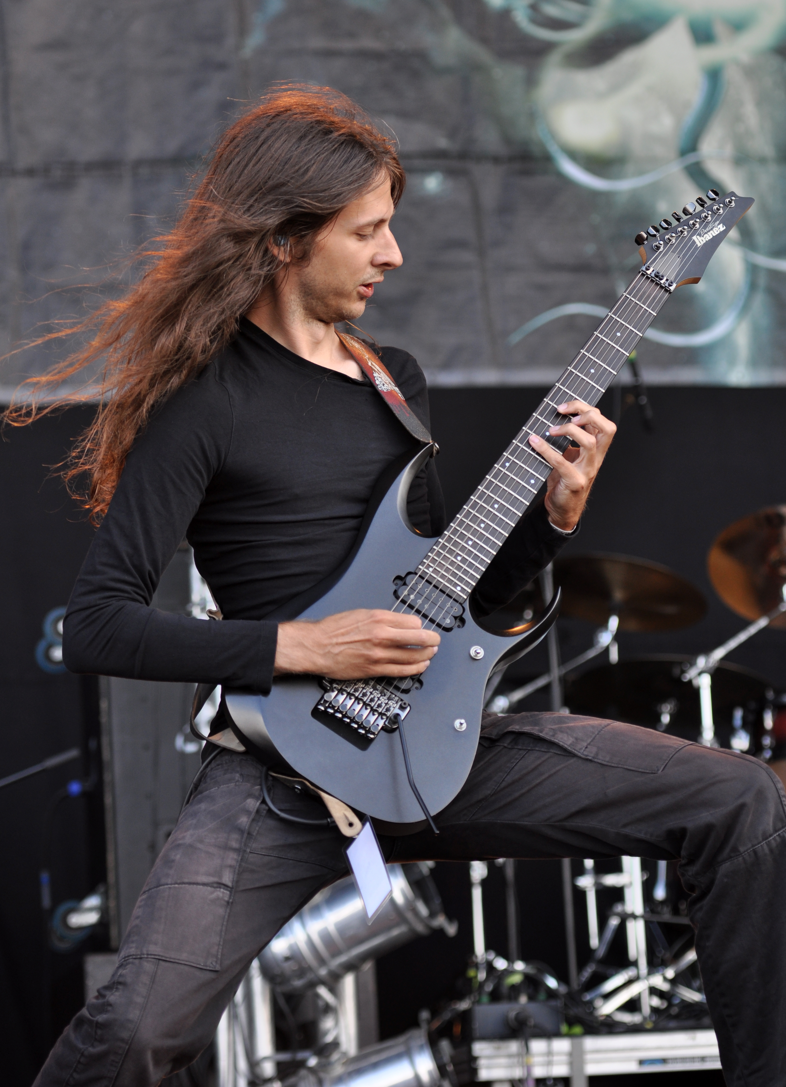 Obscura at Party.San Metal Open Air 2013